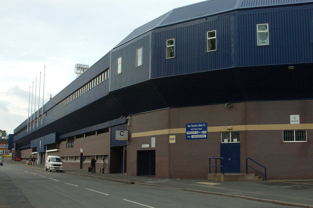 West Bromwich Albion - The Hawthorns, Halfords Lane entrances.